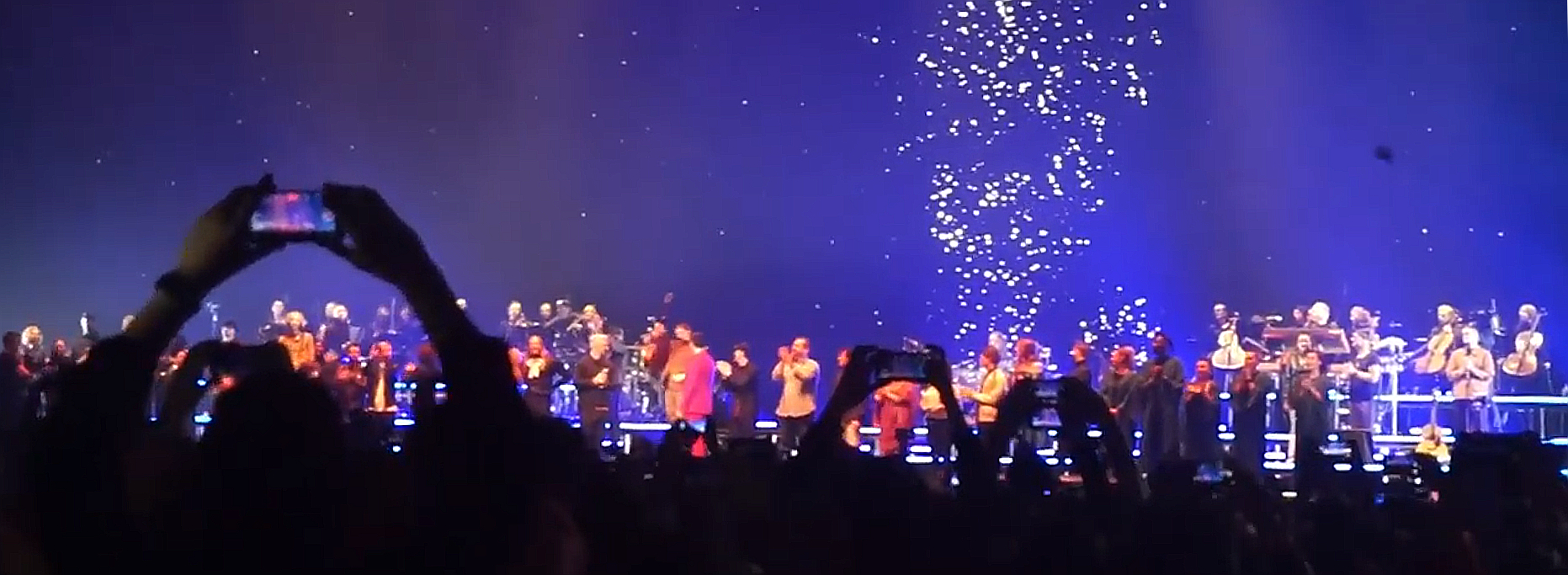 Guest stars of Avicii Tribute Concert 2019